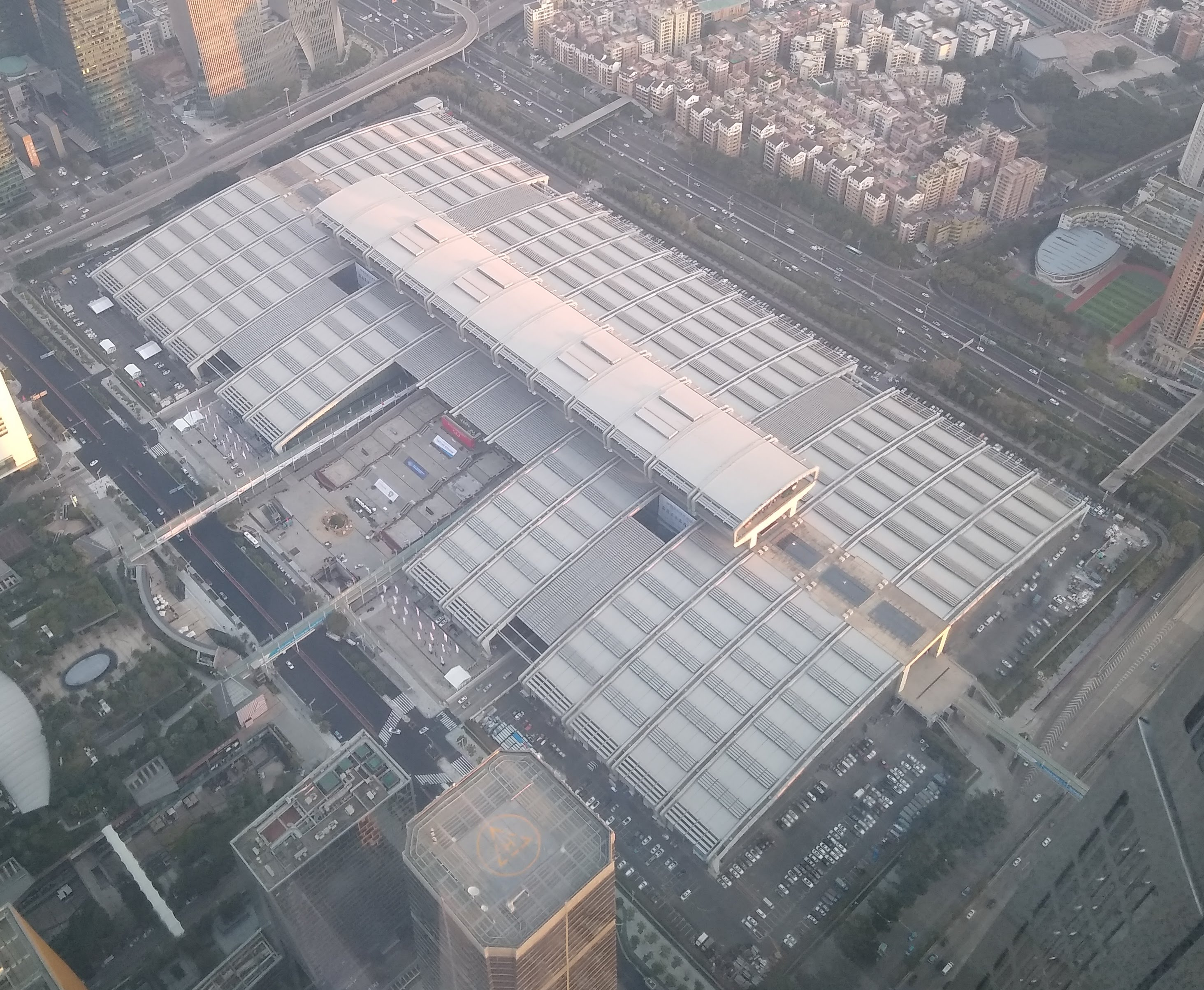 Shenzhen Convention and Exhibition Center seen from the Free Sky observation deck at Ping An Finance Centre in Shenzhen, China.